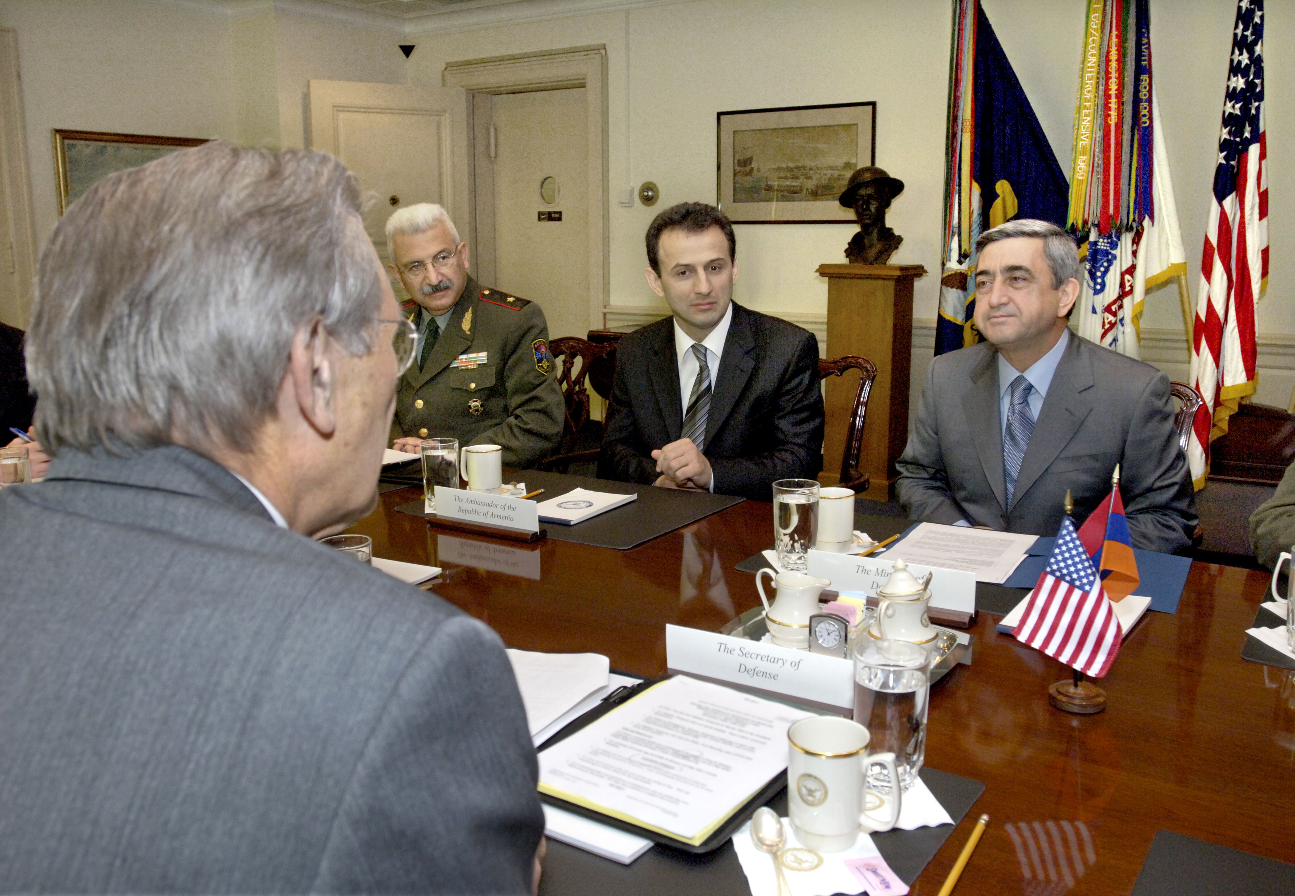 Armenian Minister of Defense Serzh Sargsyan (right) meets with Secretary of Defense Donald H. Rumsfeld (foreground) to discuss security related issues of mutual interest to both nations in the Pentagon on Oct. 28, 2005. Military Advisor to the Minister of Defense Gen-Maj Hayk Kotanjian (left-center), and Ambassador Tatoul Markarian (center) joined Sargsyan and Rumsfeld for the talks.